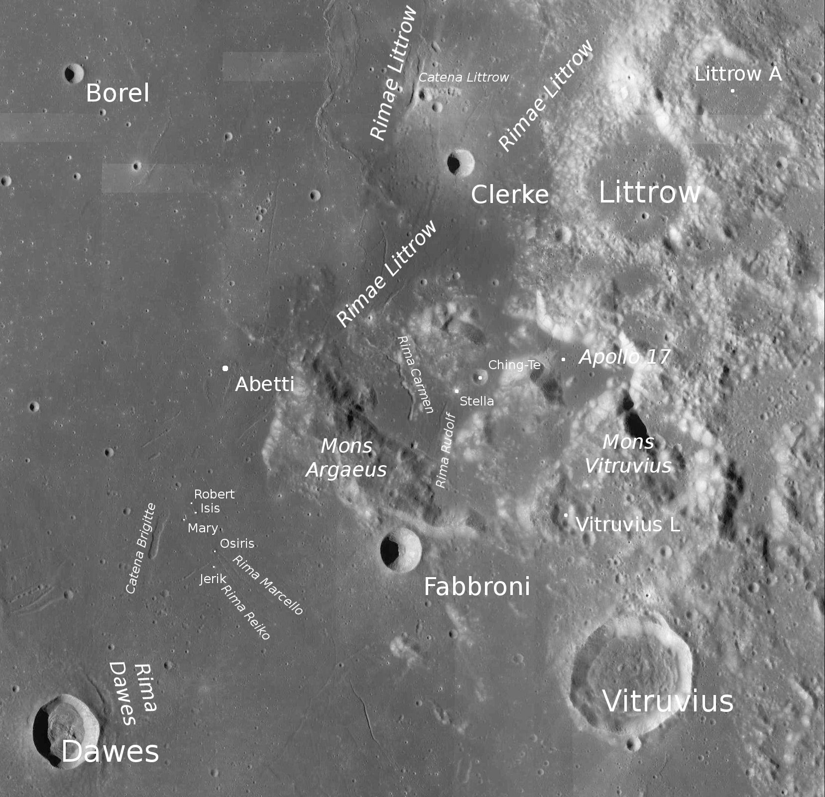 Craters Littrow, Dawes and Vitruvius with Apollo 17 landing site (detail of LROC - WAC global moon mosaic)